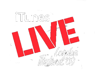 iTunes Festival London 2009